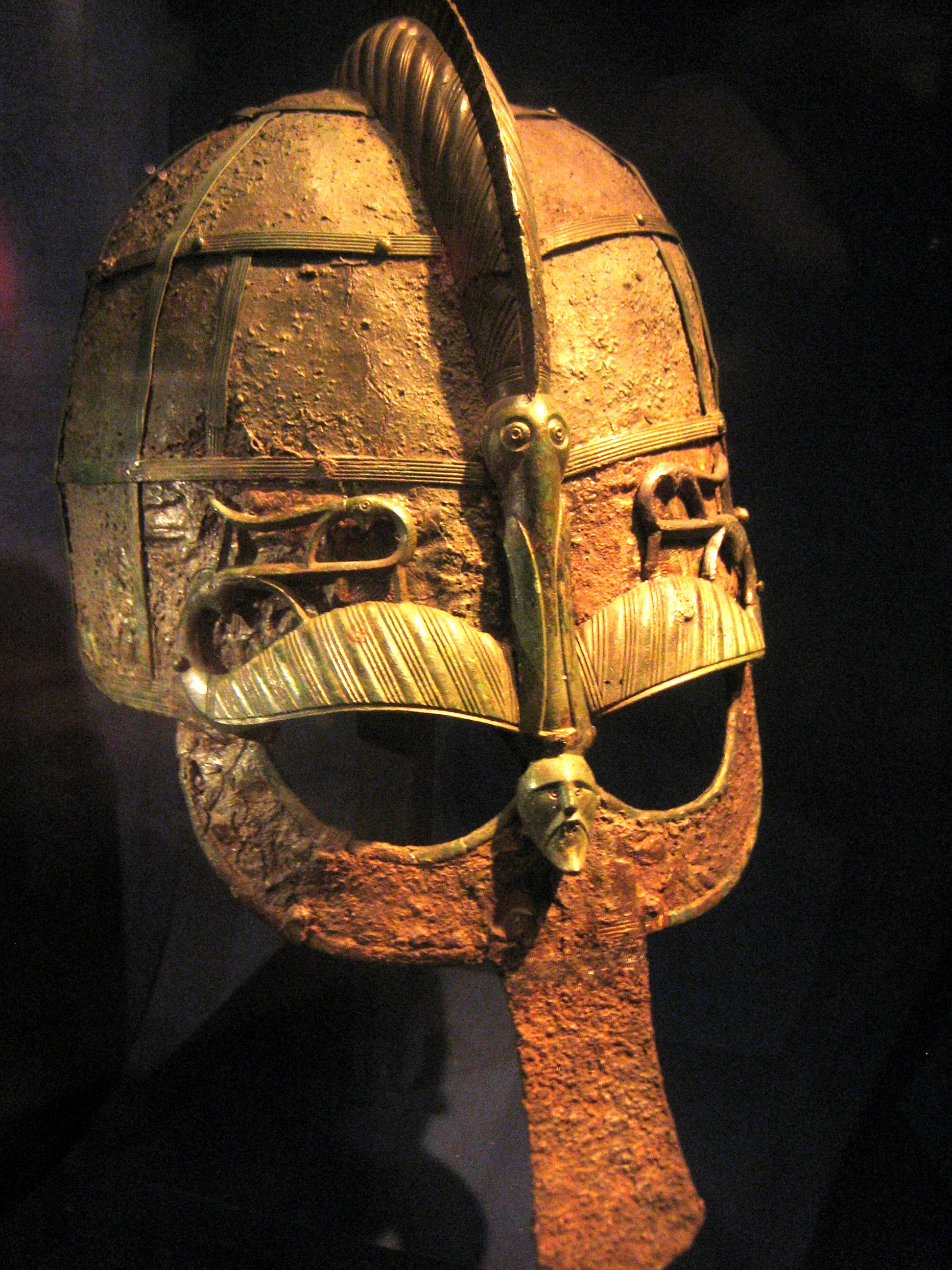 Iron helmet from vendel era (550-793 AD) boat grave 1 in Vendel, Uppland, Sweden. Available at the Museum of History in Stockholm.